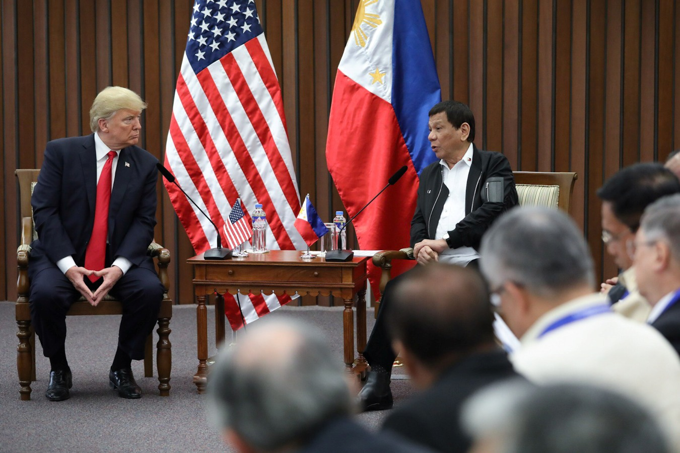 President Rodrigo Roa Duterte and US President Donald Trump discuss matters during a bilateral meeting at the Philippine International Convention Center in Pasay City on November 13, 2017. ROBINSON NIÑAL JR./PRESIDENTIAL PHOTO